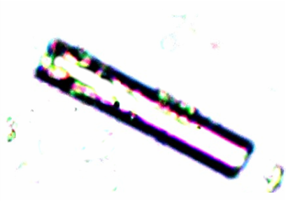 Flagilaria